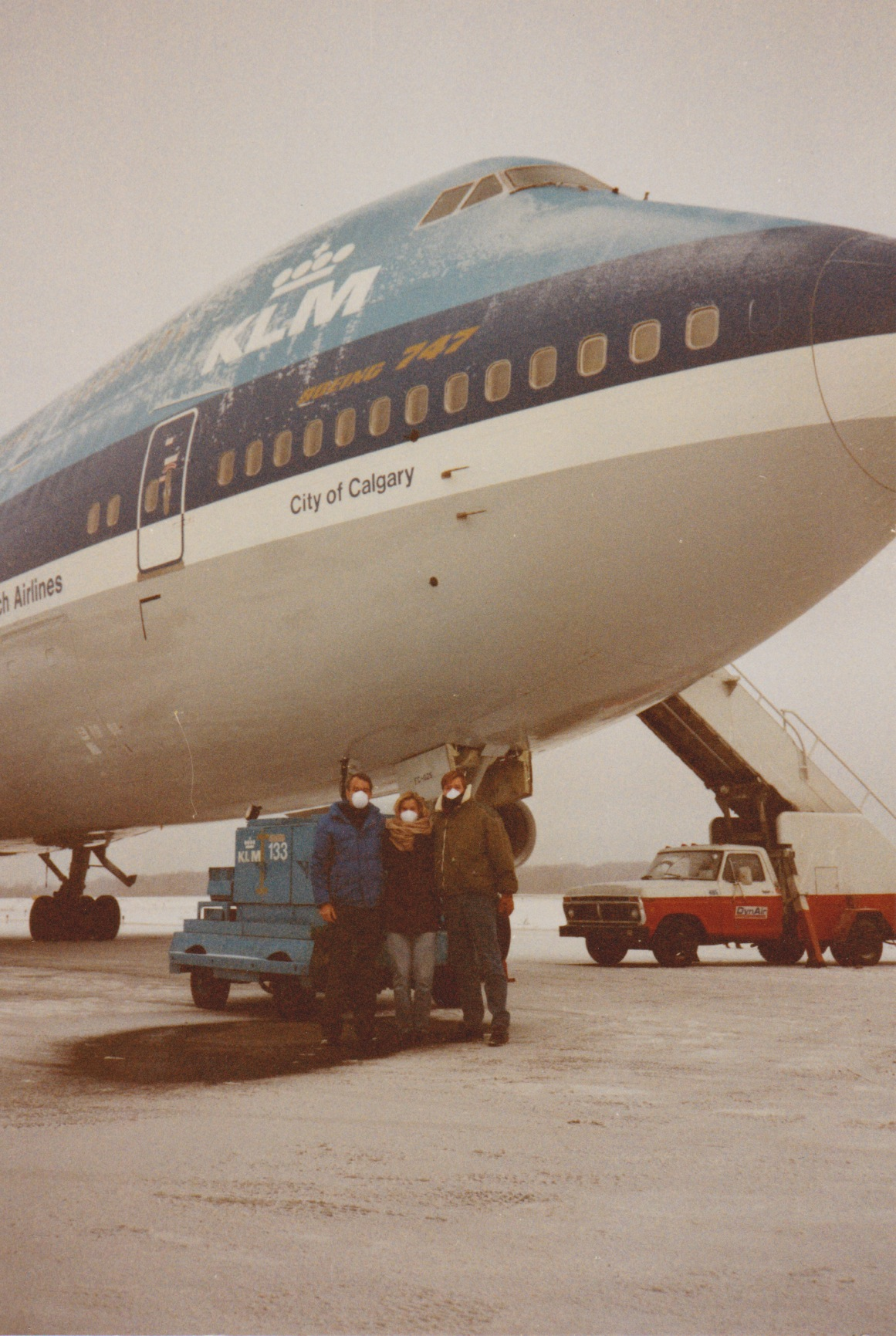 The Crew of KL 867 inspecting the damage of their Boeing 747-406M (Registration PH-BFC) which encountered the ash cloud from Mt Redoubt in Alaska in December 1989